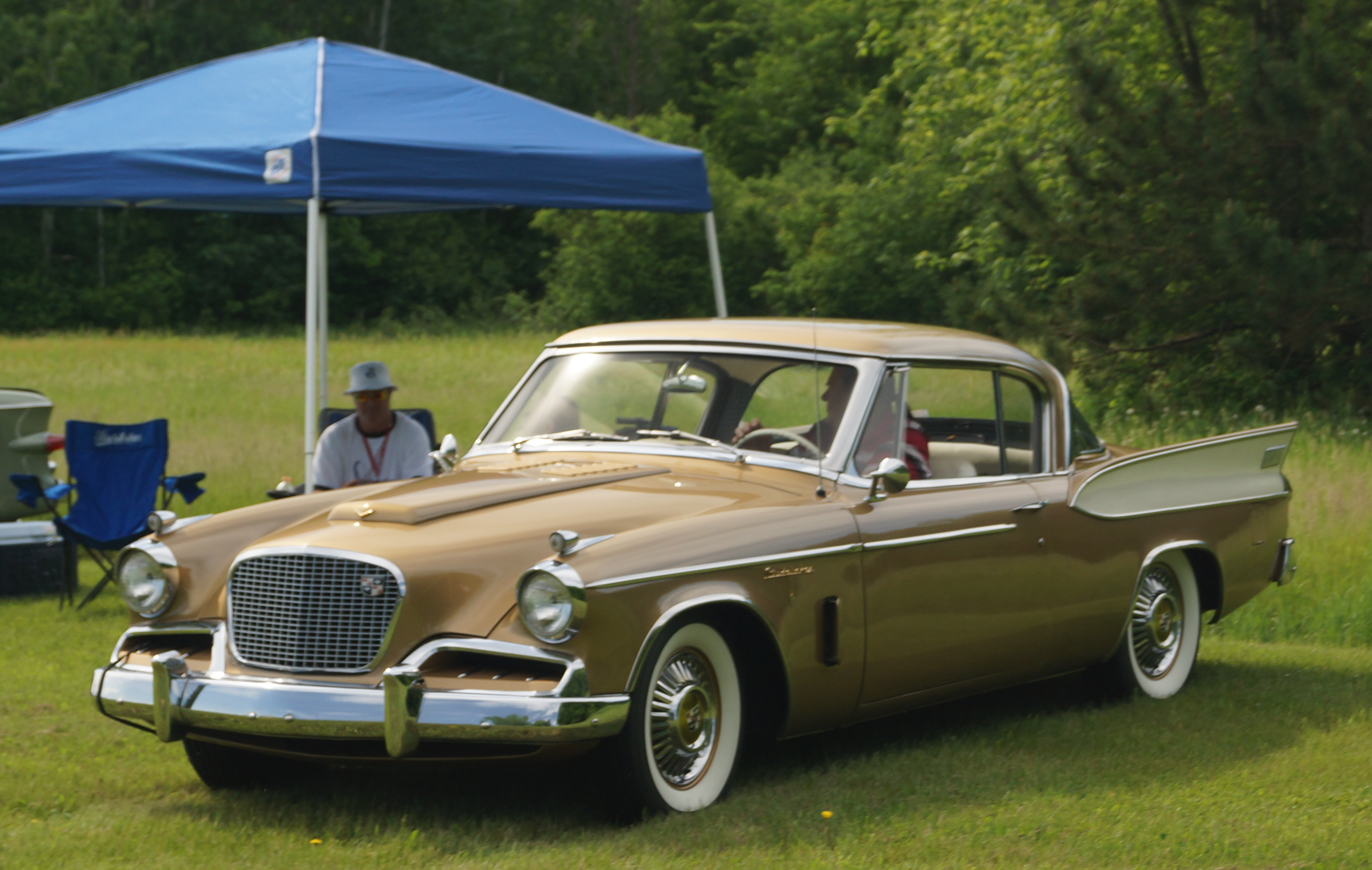 1957 Studebaker Golden Hawk Click here for more car pictures at my Flickr site. Studebaker Drivers Club North Star Chapter 42nd Annual 2016 Memorial Day Car Show Blacksmith Lounge Hugo, Minnesota